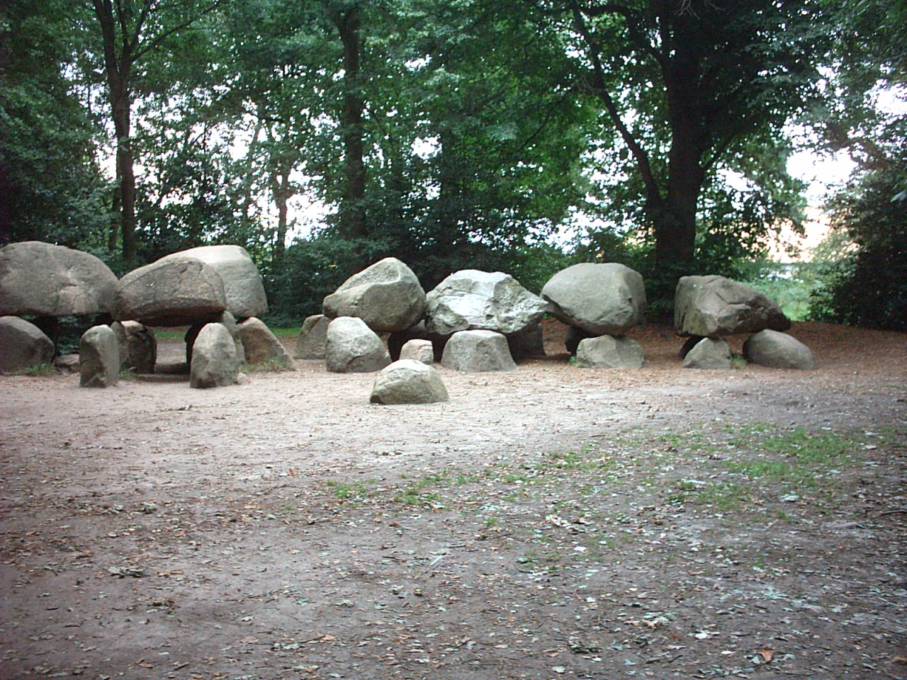 The hunebed of Borger, the largest of the Netherlands. August 2004.